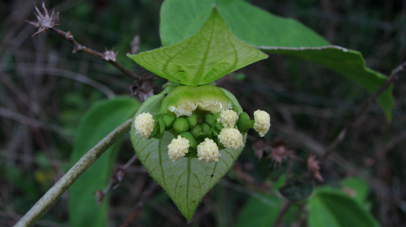 Dalechampia coriacea Klotzsch ex Muell. Arg.